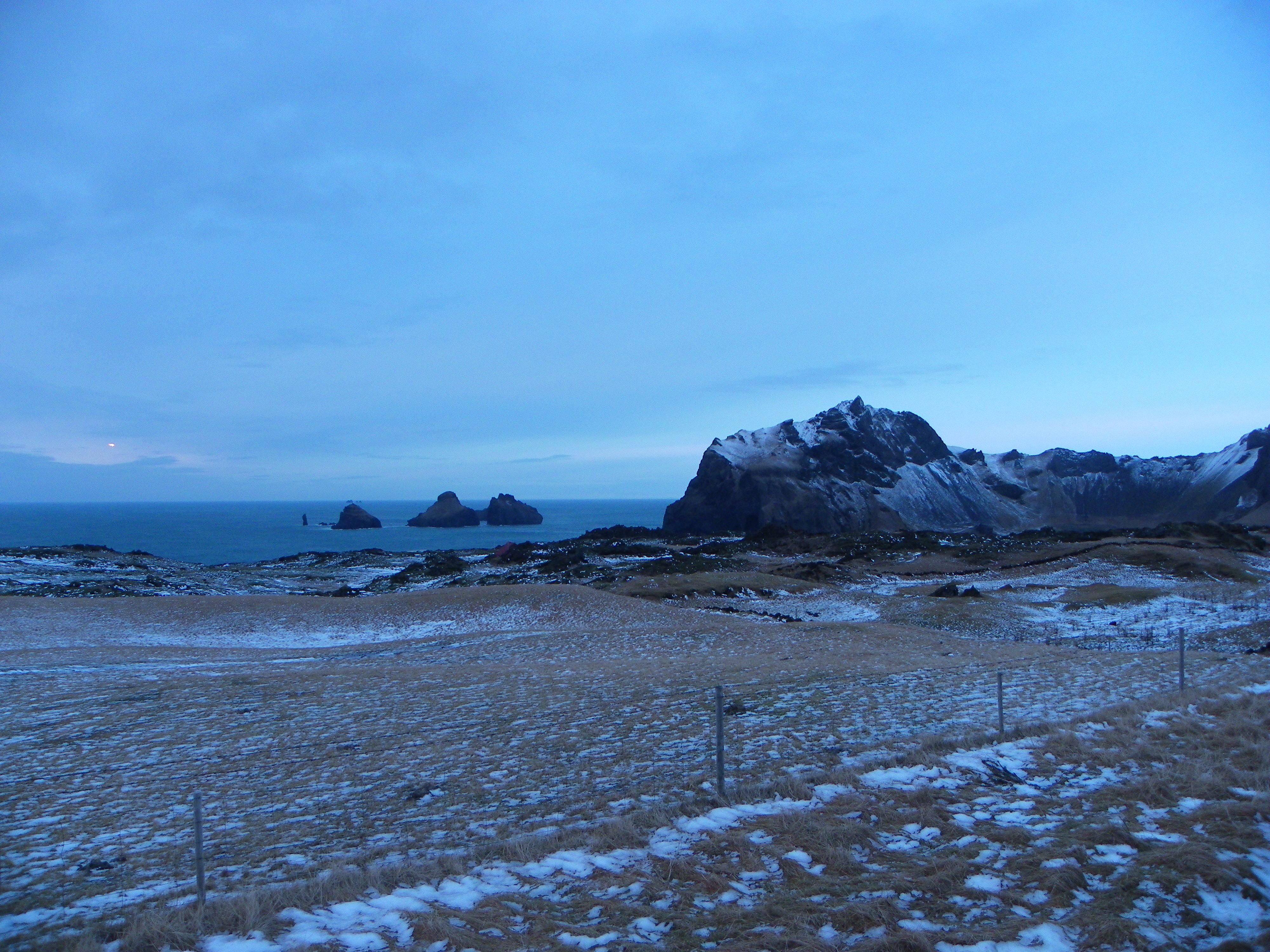 Frá Ofanleiti